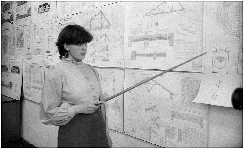 University student.